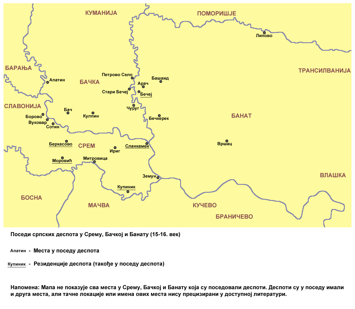 Possessions of the Serbian despots in Syrmia, Bačka and Banat (15th-16th century).